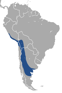 Pallid Fat-tailed Opossum (Thylamys pallidior) range